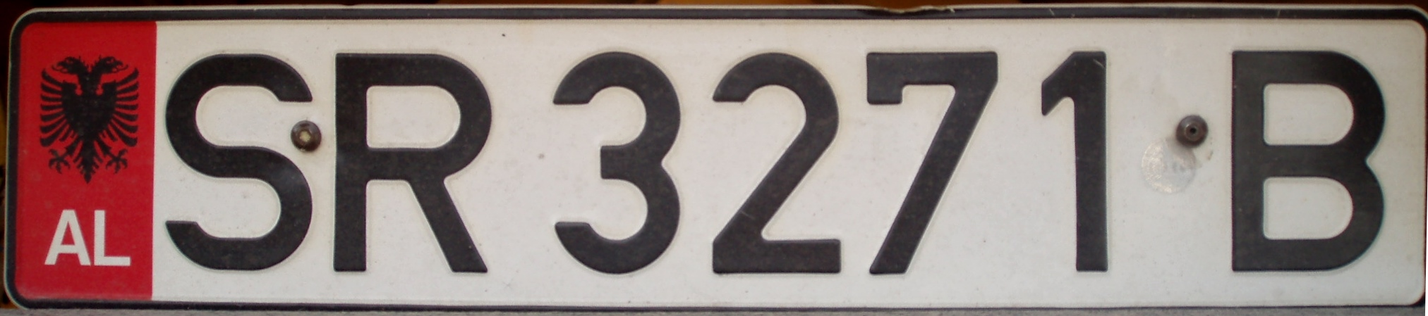 license plate of Saranda, Albania